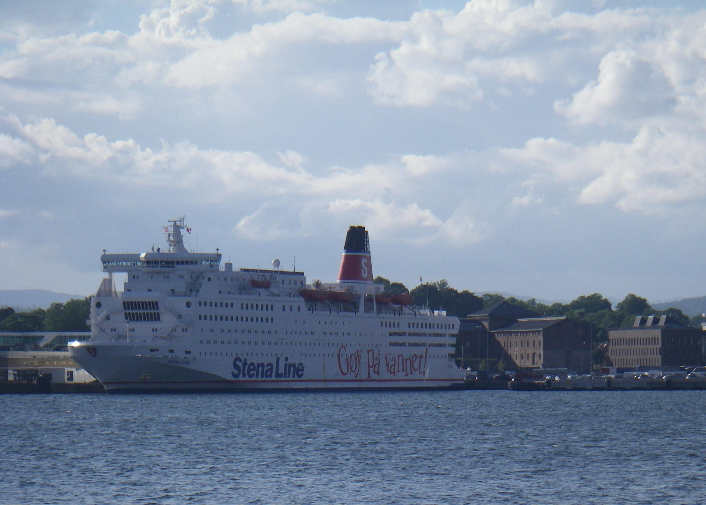 Stena Saga in Oslo